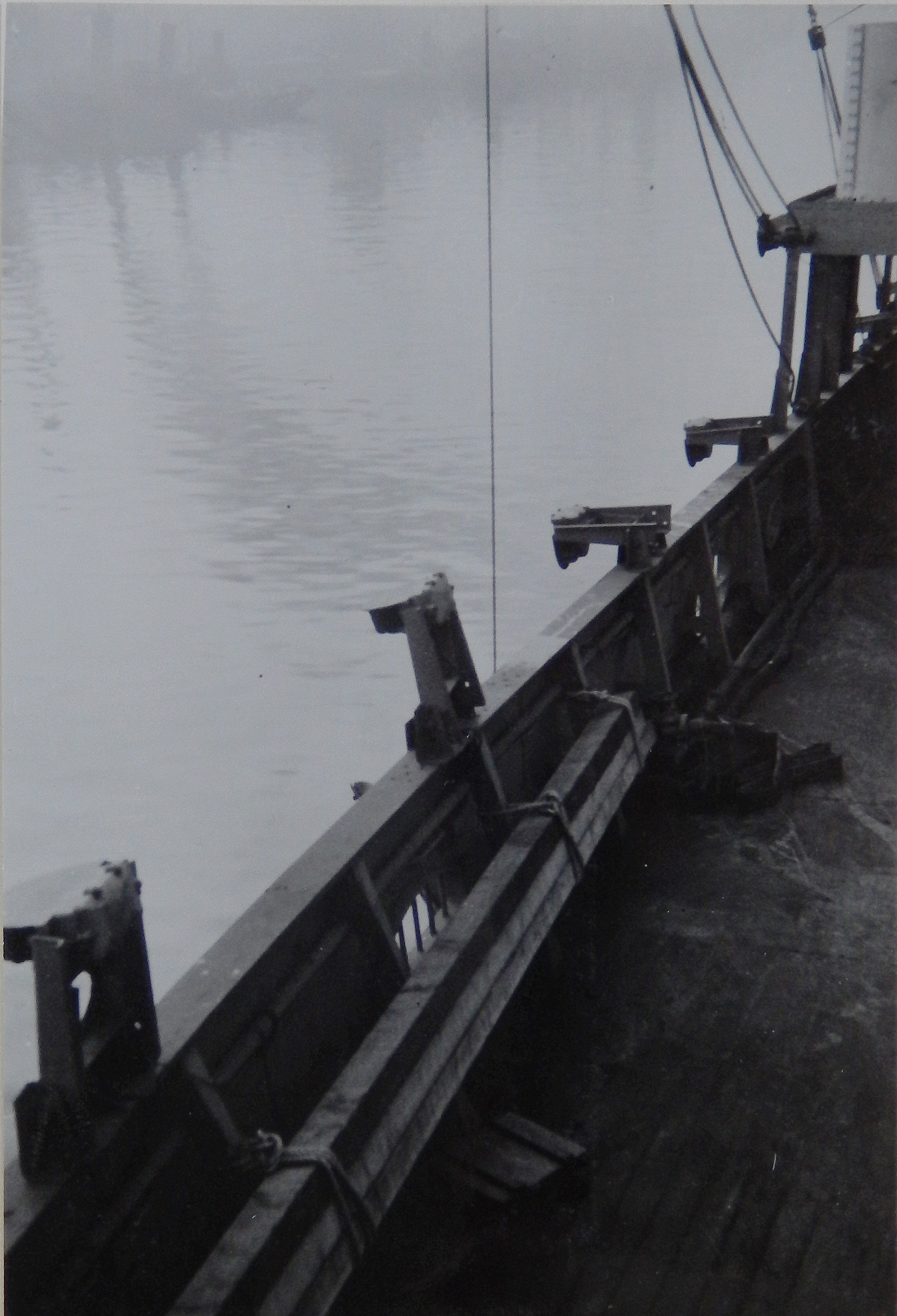 Bulwark of HMS Largs showing four Diffused Lighting Camouflage fittings, two lifted inboard, 2 deployed, for trials in the Clyde Approaches, 1942